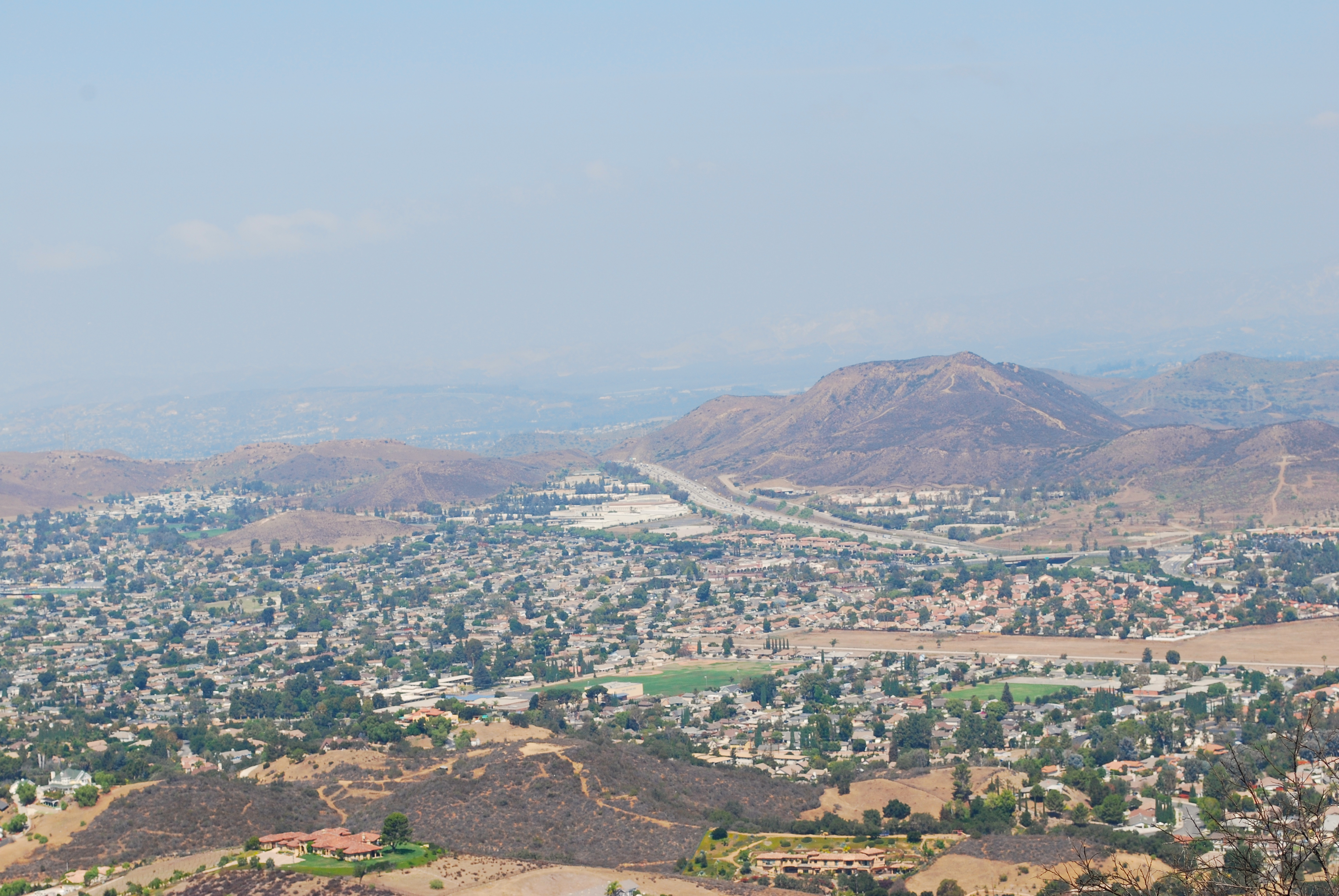 View of the Conejo Grade from Angel Vista on the Rosewood Trail in Newbury Park, CA.